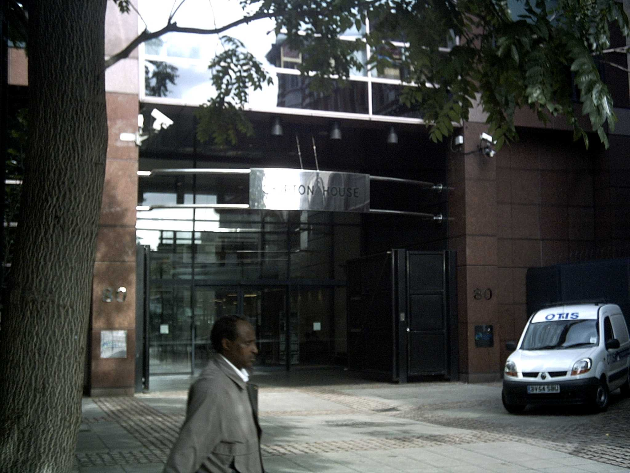 The imposing entrance to Skipton House, London Road, SE1. Taken Wed 28 September 2005. Londoneye 21:25, 29 September 2005 (UTC)